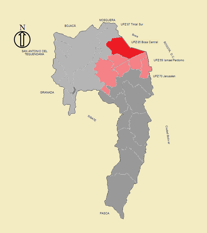 Commune 3 La Despensa map, Municipality of Soacha (department of Cundinamarca, Colombia)